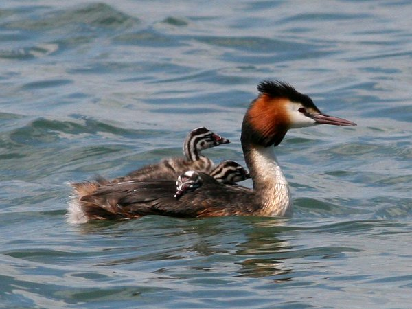 Great Crested Grebe (Podiceps cristatus)